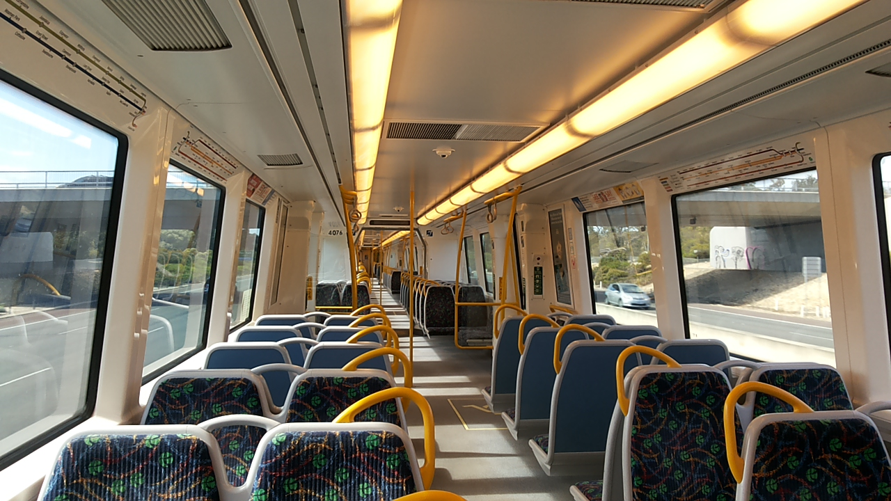 The interior of Transperth's Downer Rail/Bombardier B-Series 76, operated by Transperth Trains.